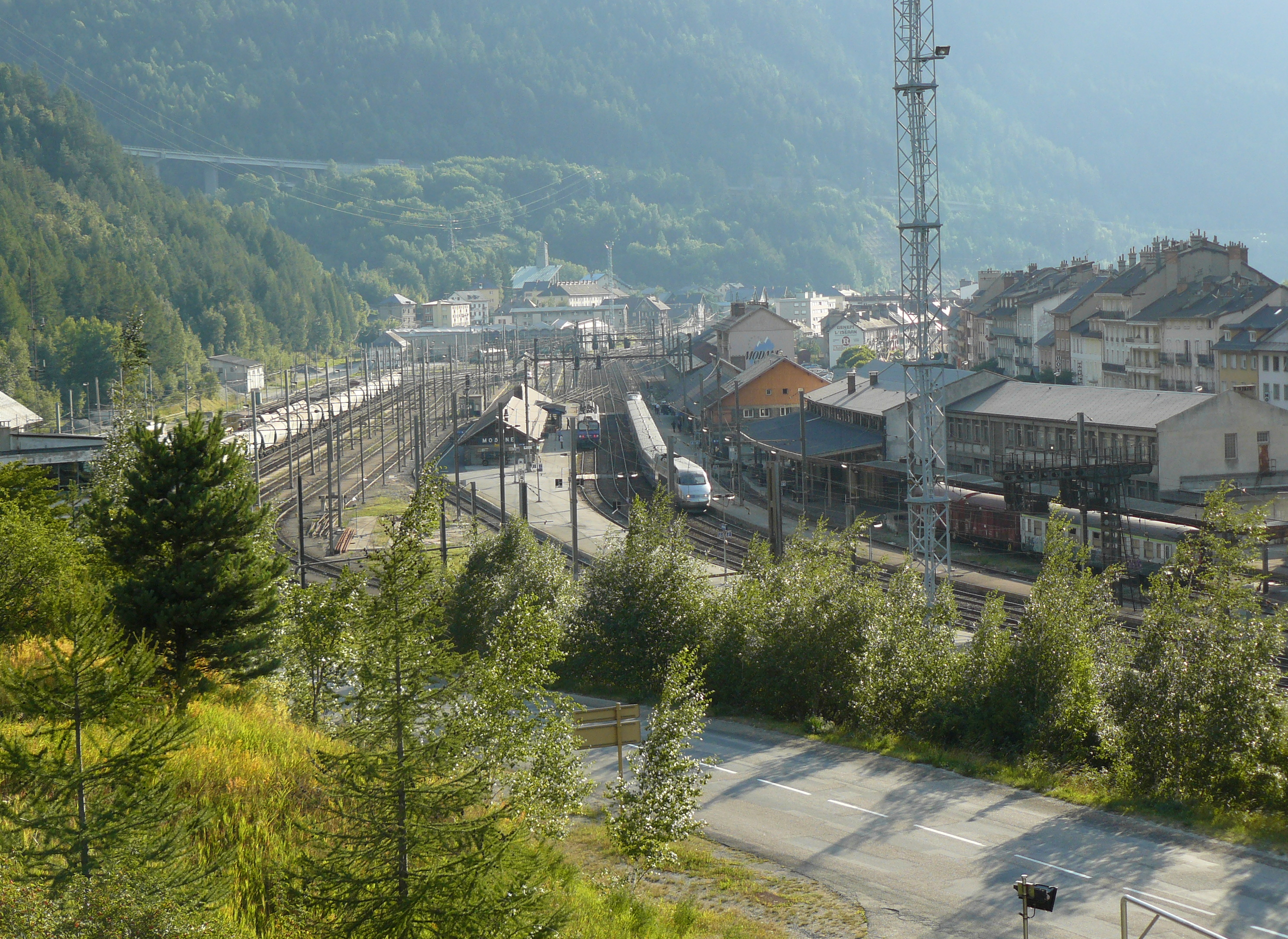 View of Modane railway station located in France (Savoie). Culoz–Modane railway.